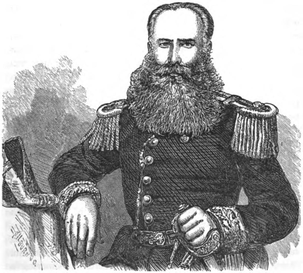 General José Vicente Barrios, executed by his brother-in-law, Dec. 21, 1868.